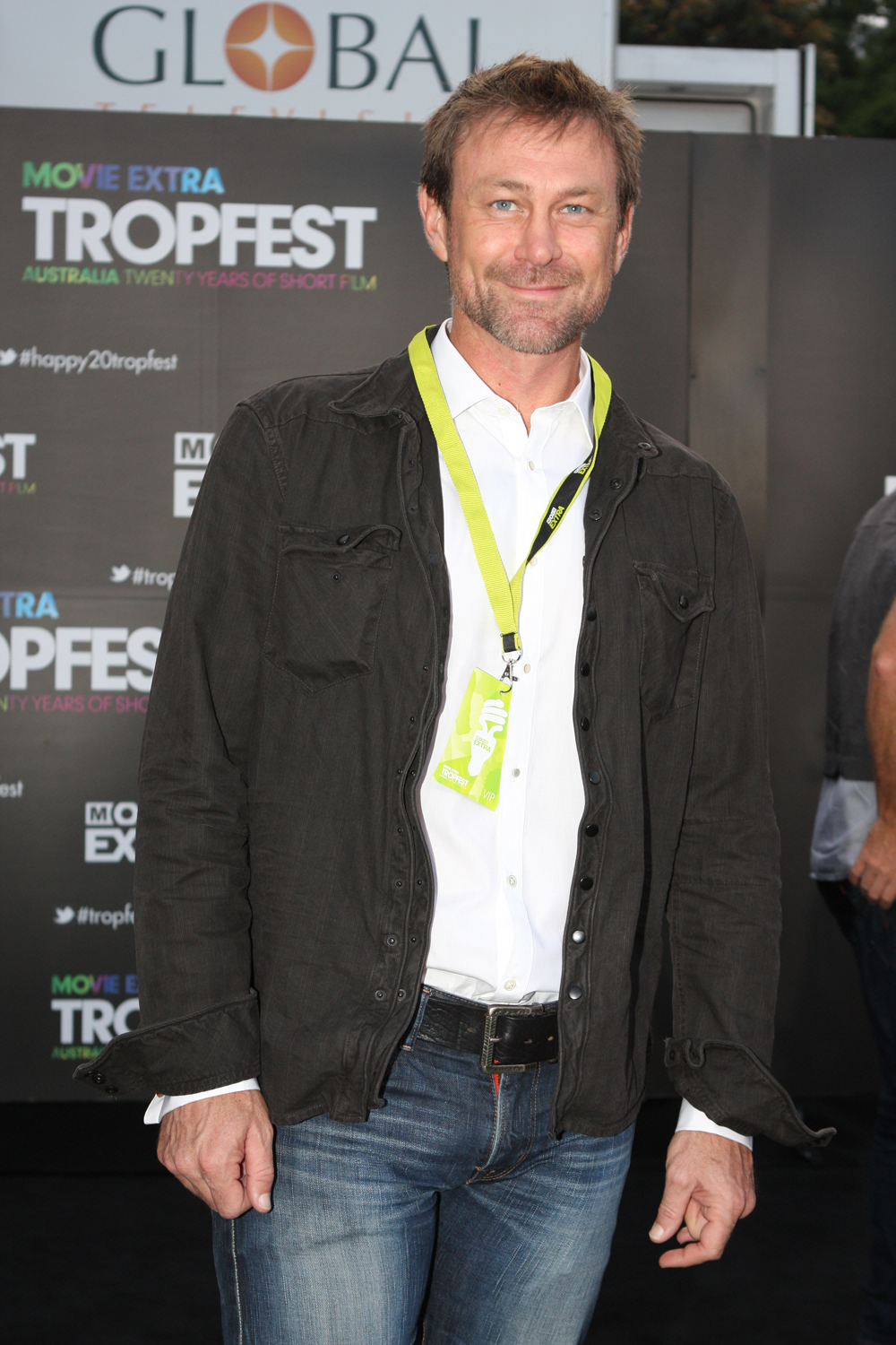 Grant Bowler at Movie Extra Tropfest 2012